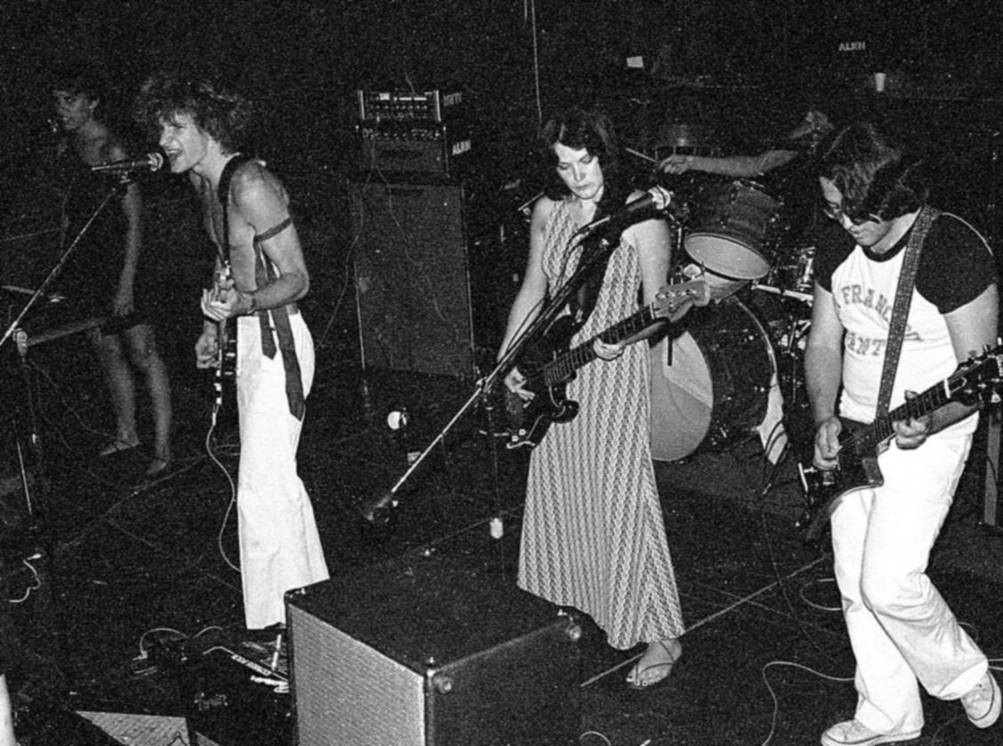 Alternate Learning (ALRN), Scott Miller’s pre-Game Theory band in Davis, California, about 1979–1980. Left to right: Lynn Ross, Scott Miller, Carolyn O'Rourke, Jozef Becker, Scott Gallawa.